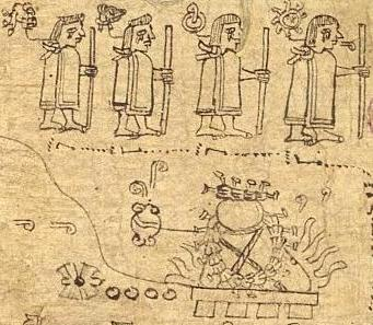 The funeral for the Tepanec ruler Tezozomoc.